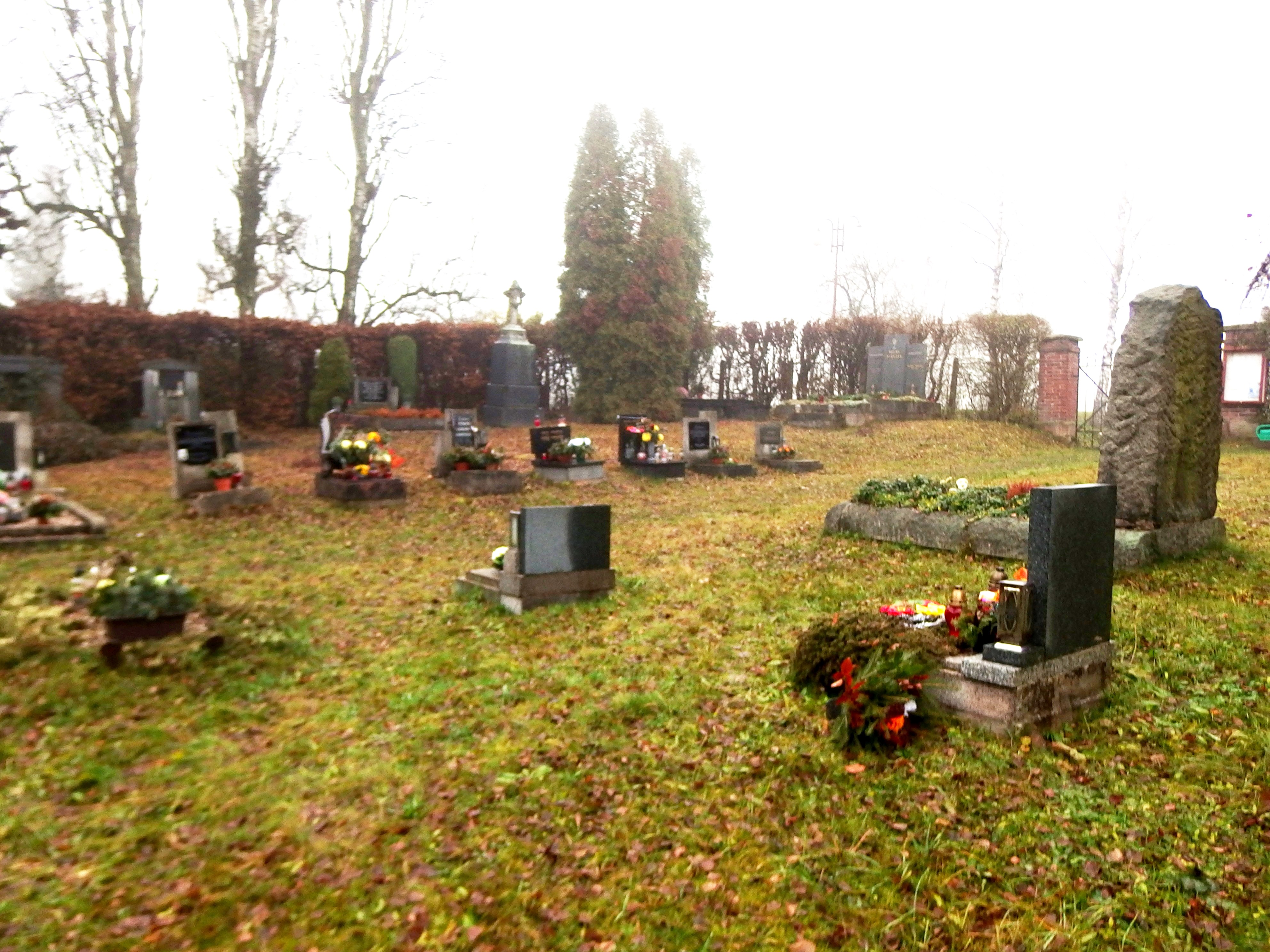 Jilemnice, Semily District, Czech Republic.